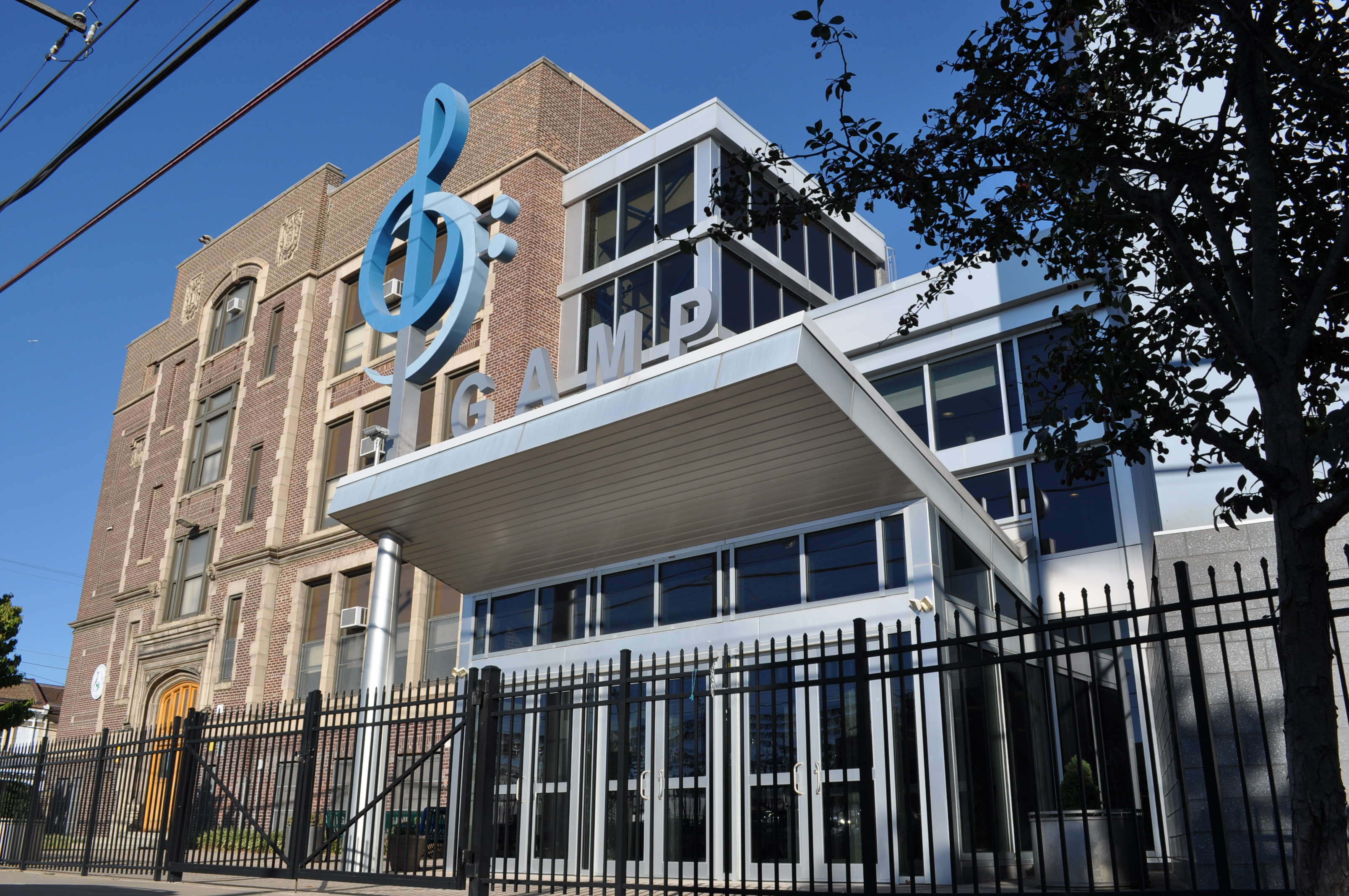 Girard Academy Music Program (GAMP) Main Entrance - 2136 Ritner St Philadelphia PA